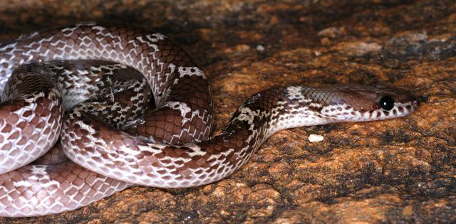 Lycodon aulicus snake, Bannerghatta, India